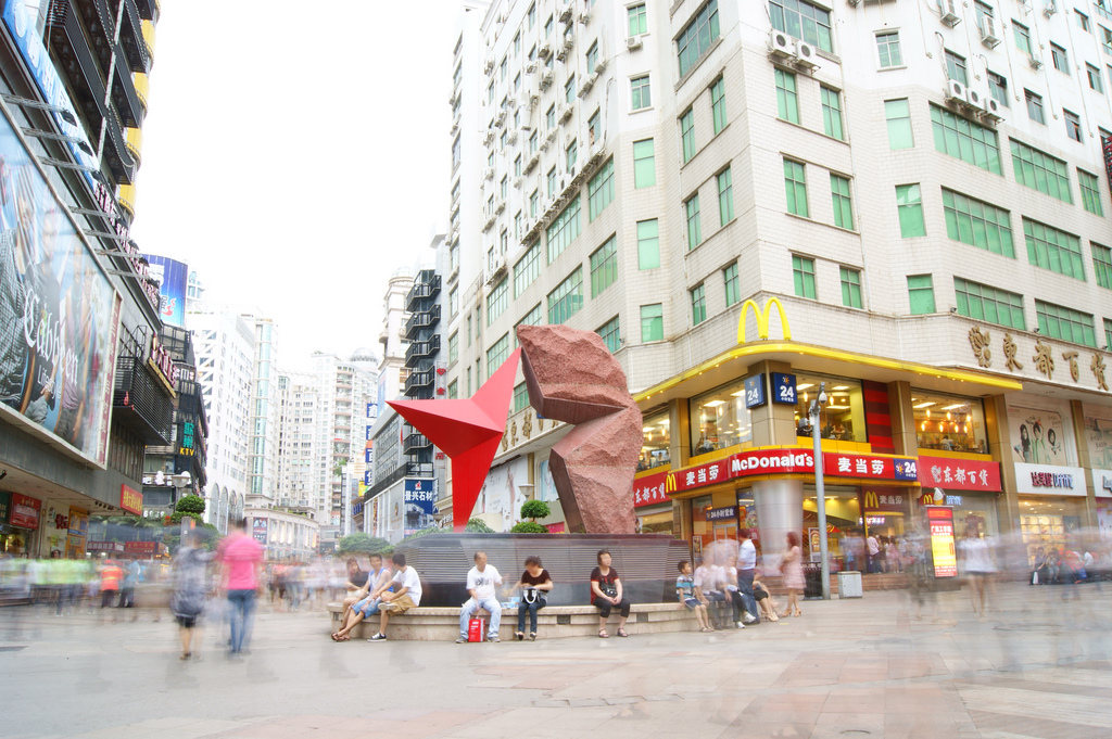 Liuzhou Five Stars Street